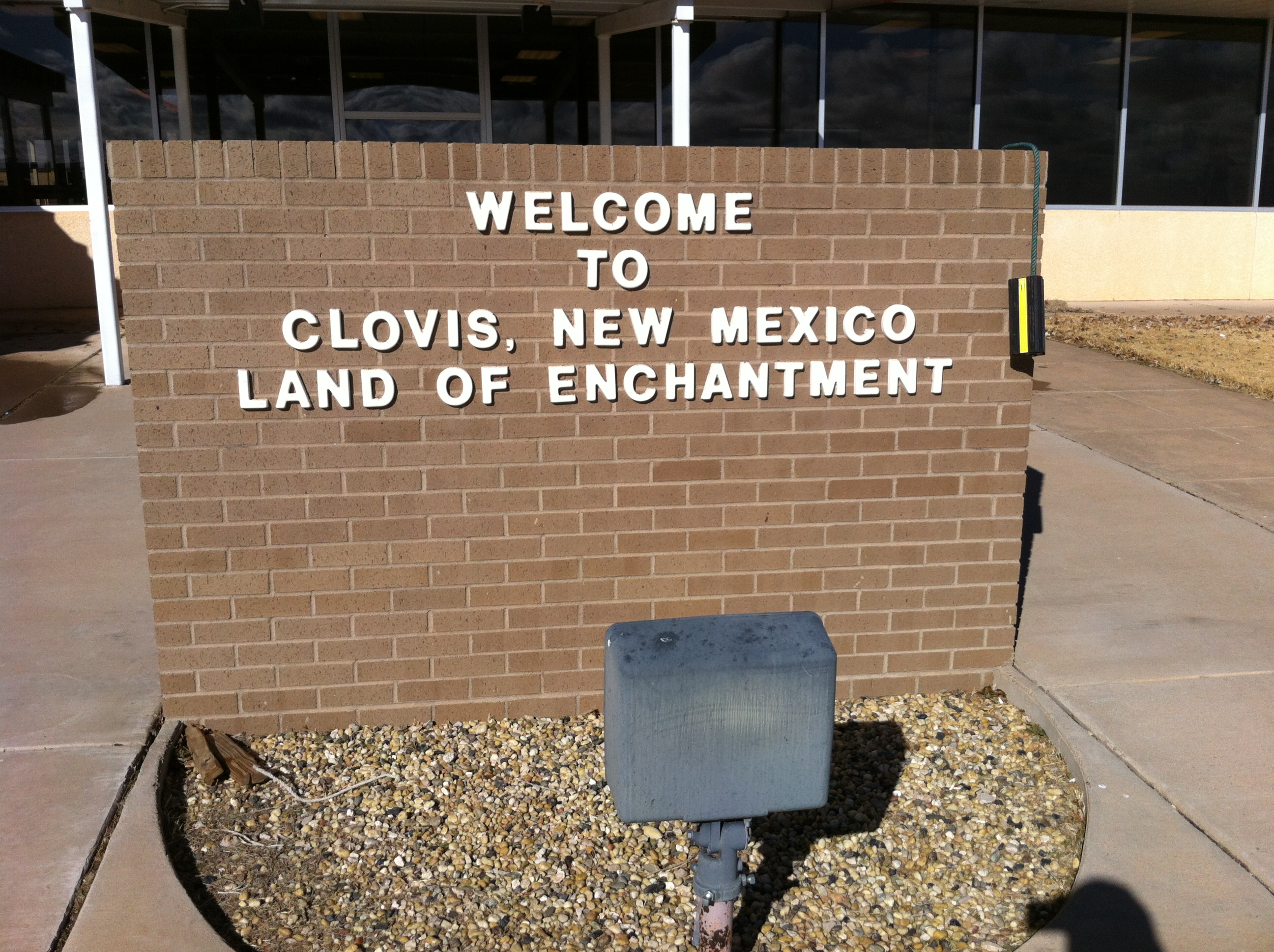 Sign at Clovis, NM airport welcoming arrivals as they leave planes and enter terminal.